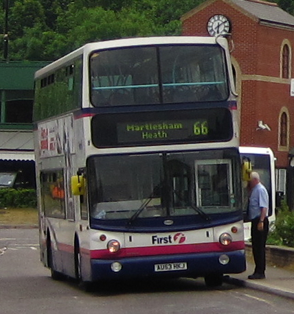 First Eastern Counties bus 32491 (reg. AU53 HKJ), a 2003 Volvo B7TL double-decker with Transbus ALX400 bodywork, pictured outside Ipswich railway station, Suffolk.